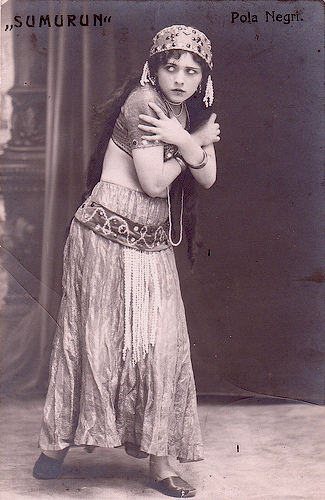 German movie card for Sumurun (1920)